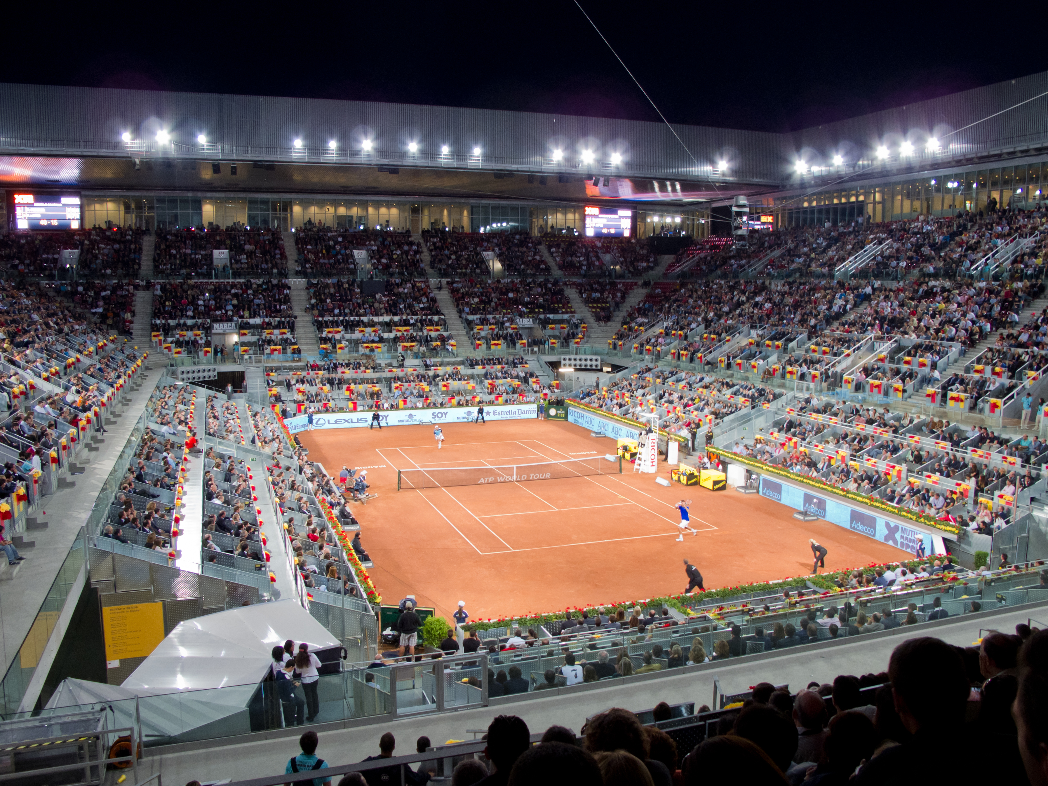 Match in the Caja Mágica between Roger Federer and Feliciano López at the Madrid Open 2011.